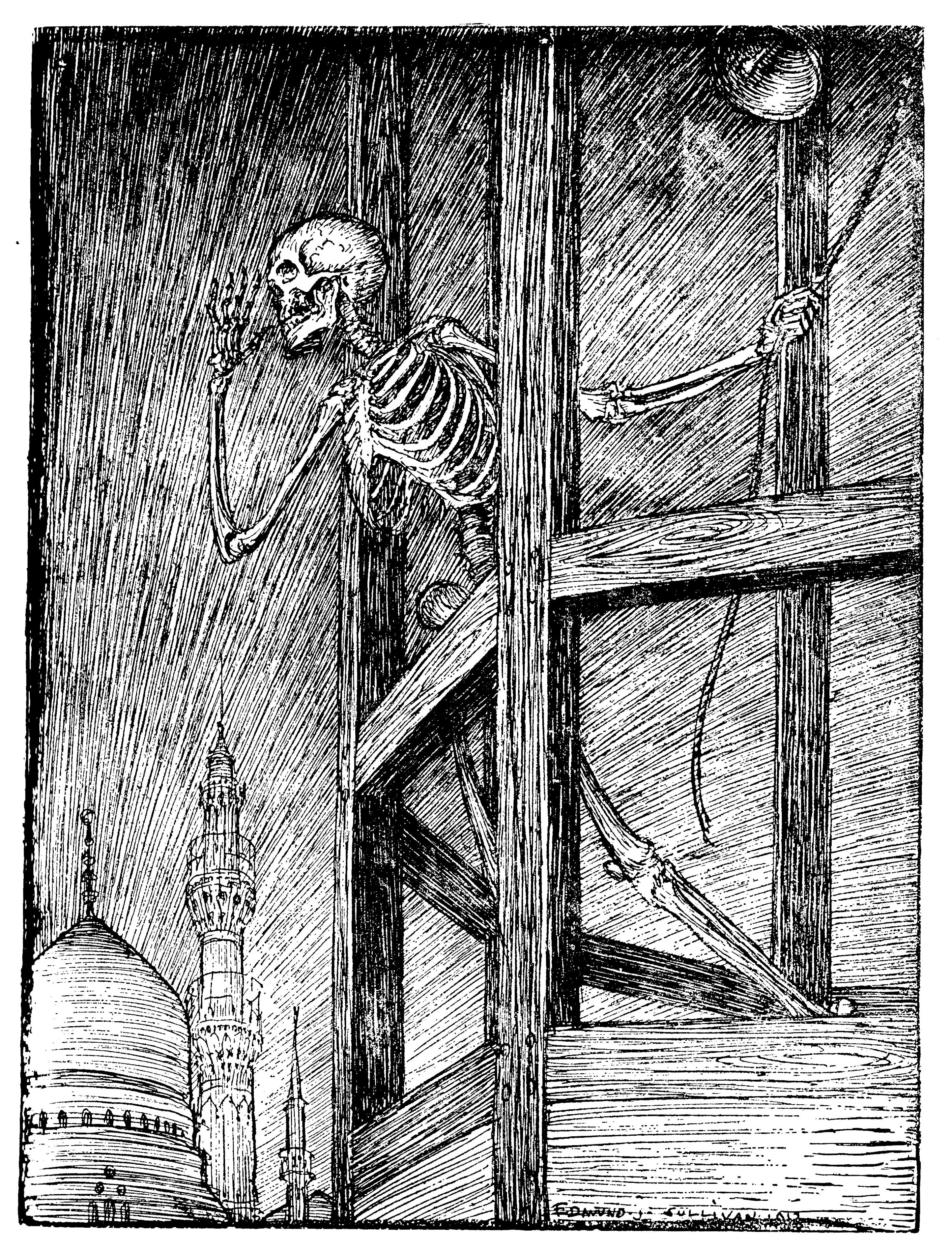 This is a quatrain illustration by Edmund J. Sullivan to the Rubaiyat of Omar Khayyam, First Version (translated by Edward Fitzgerald).